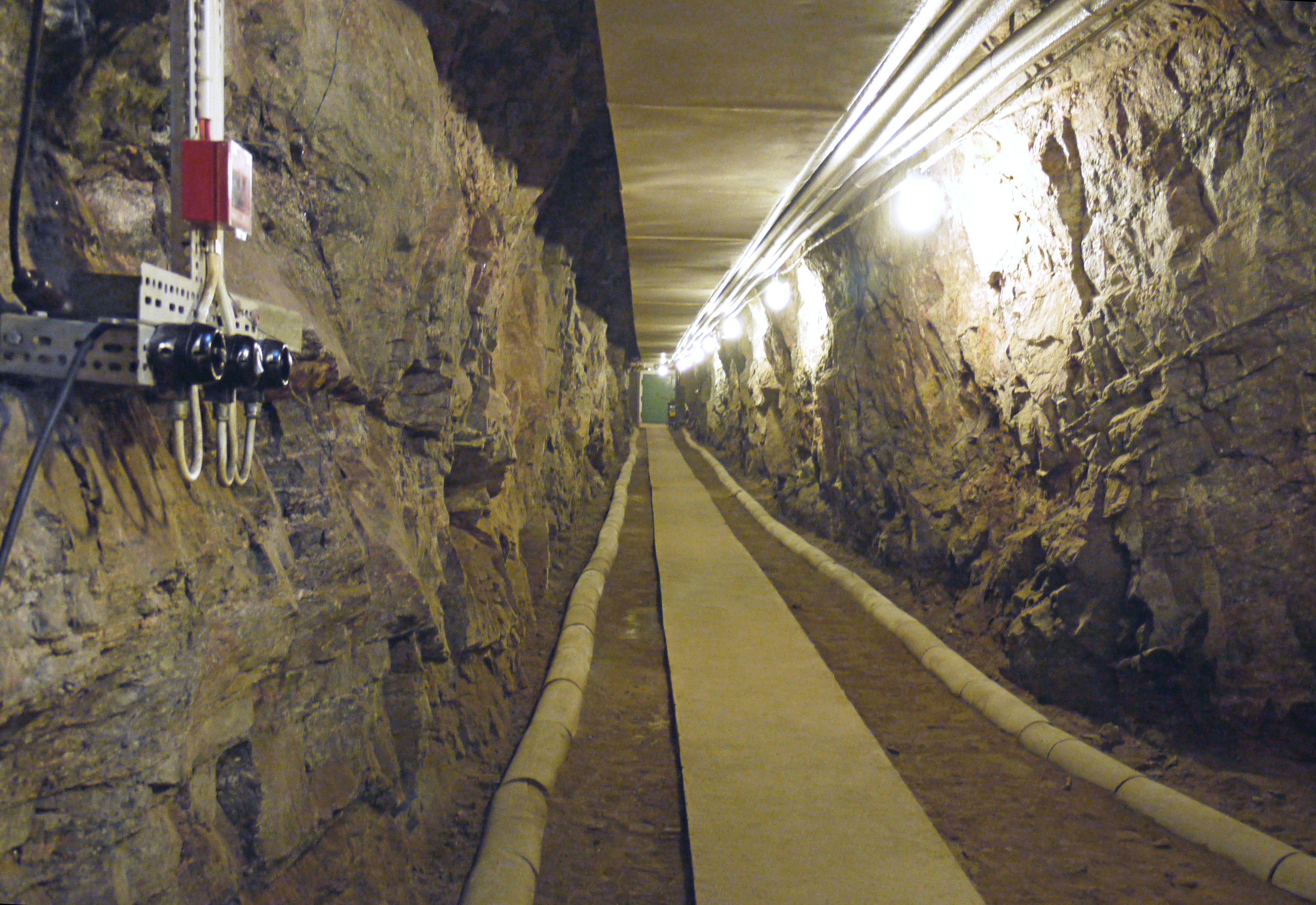 Fortress "Femörefortet", Femöre, Oxelösund, Sweden. Now museum. Tunnelgång